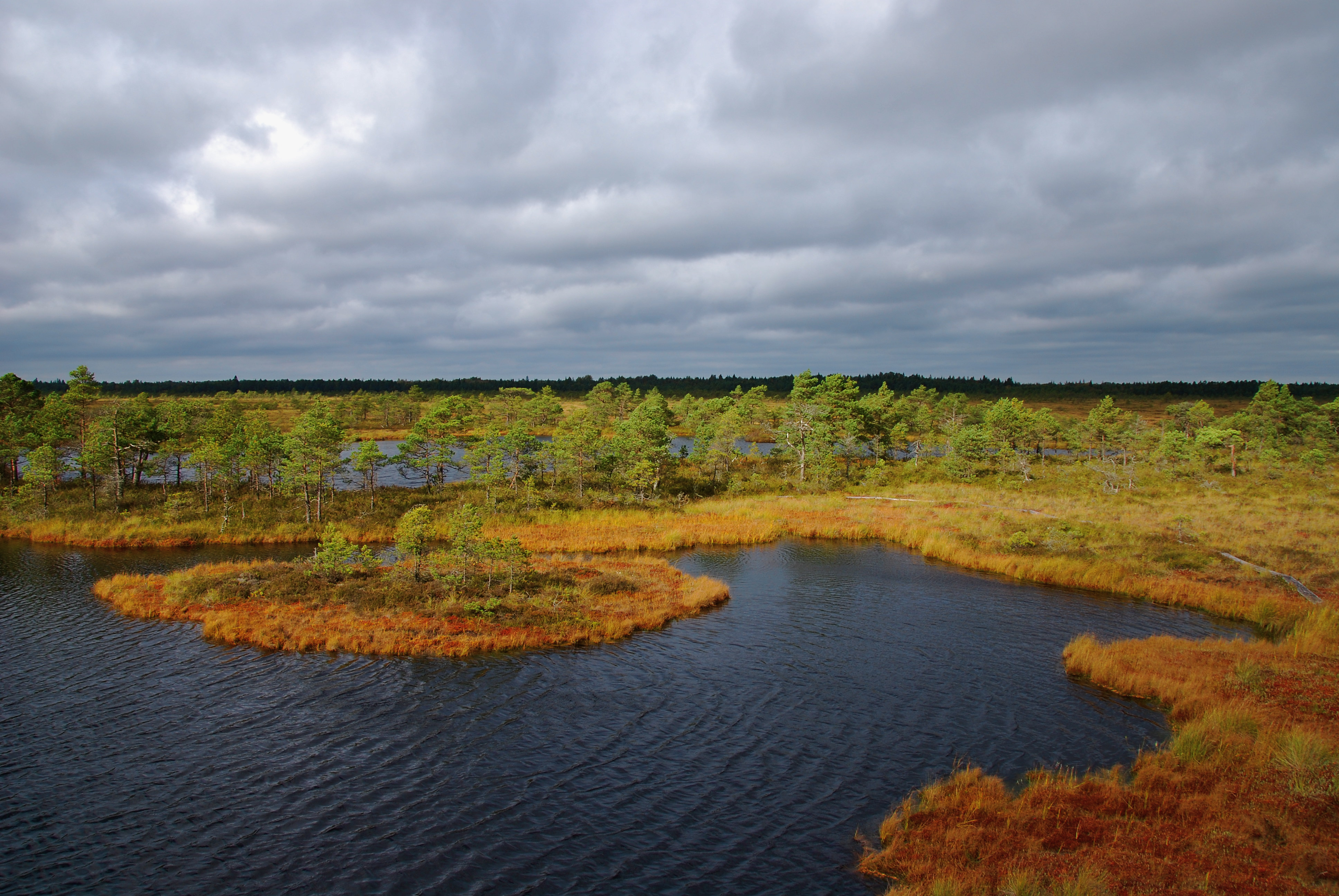 Bog pools of Marimetsa bog in Lääne County, Estonia